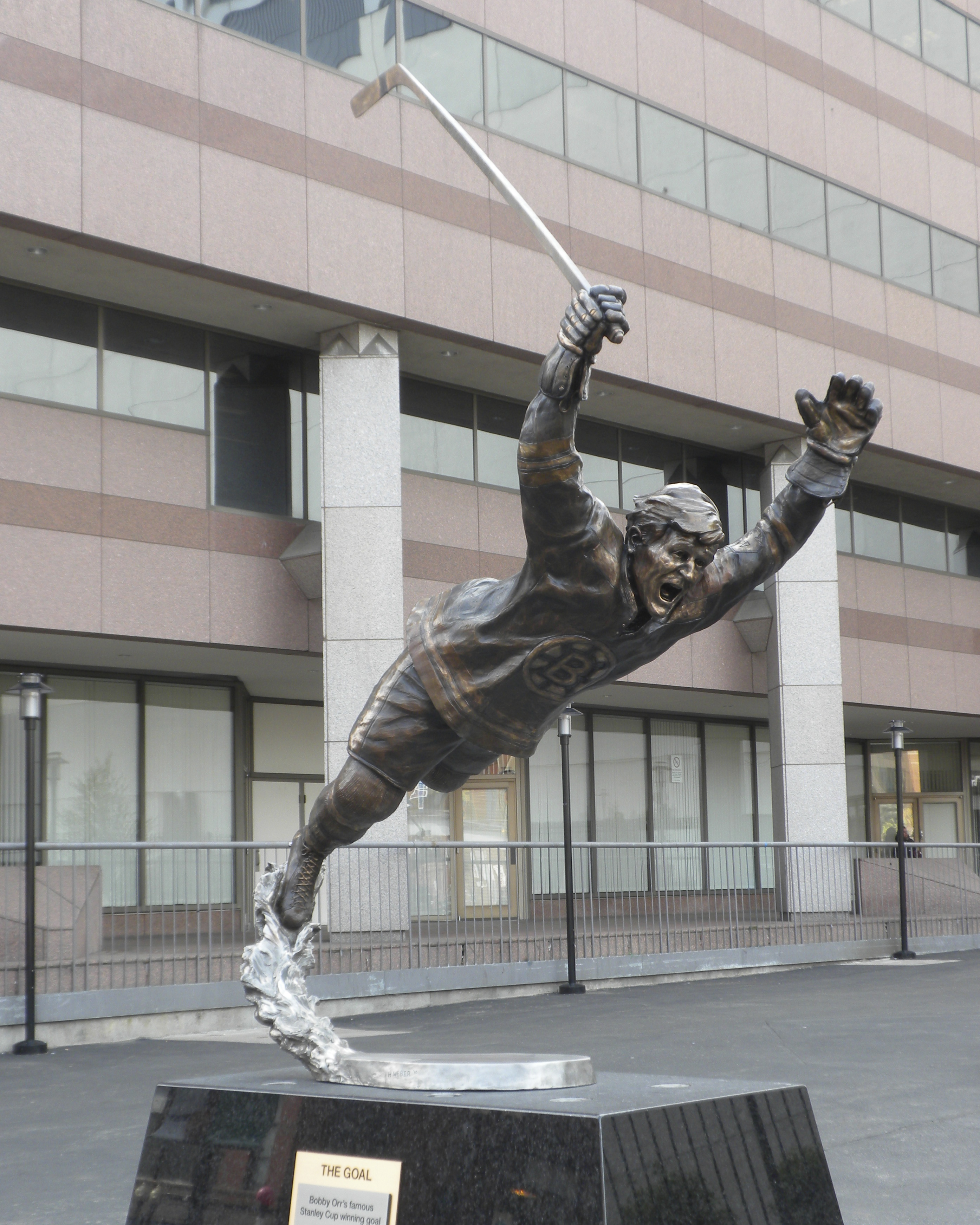 Harry Weber, sculptor of the Orr Statue, the subject of the photo, took this original picture outside Boston Garden on 05-10-2010